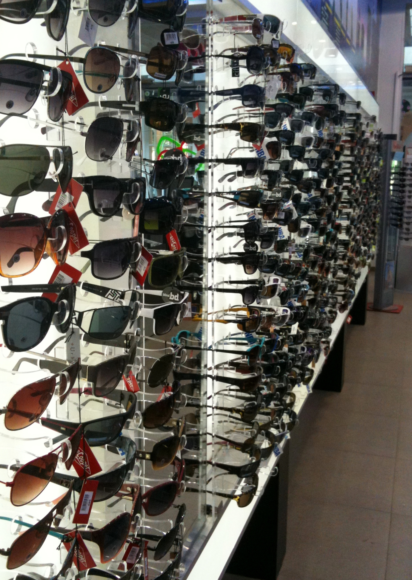 Sunglasses